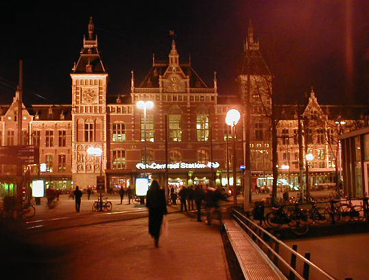 Amsterdam's Centraal Station at night. Photograph taken March 27, 2001 by Paul H. Henry.